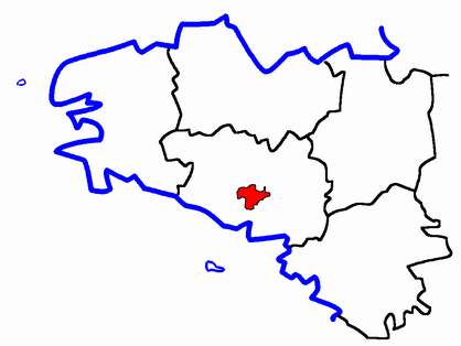 Description: Map for localisazion of cantons of Bretagne region in France Source: made by Hervé Tigier in april 2005 from another large map (published in 1990)